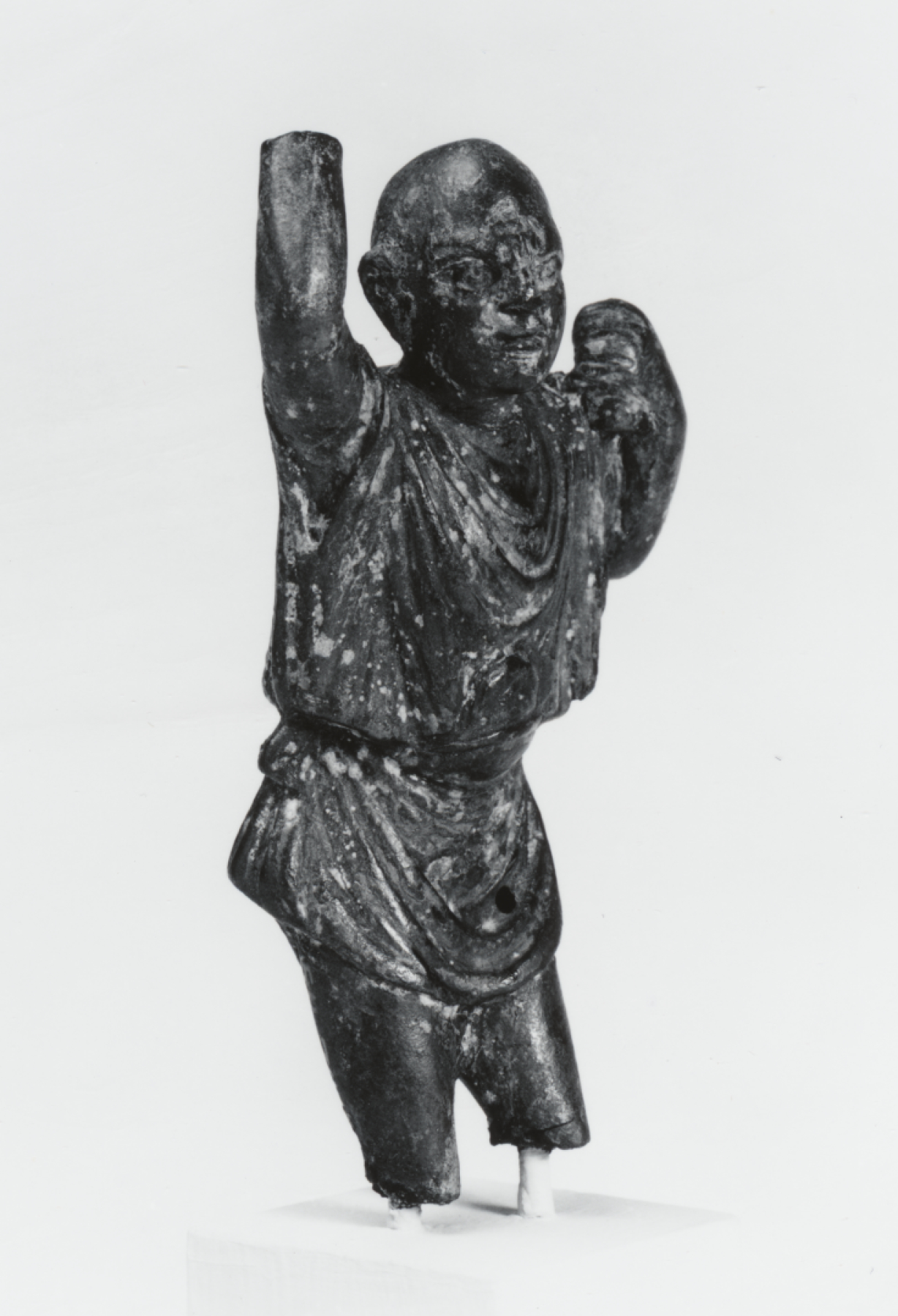 Although tunics were usually worn by slaves or laborers, the subject here may be a theatrical performer who raises his arms in a dancing gesture.